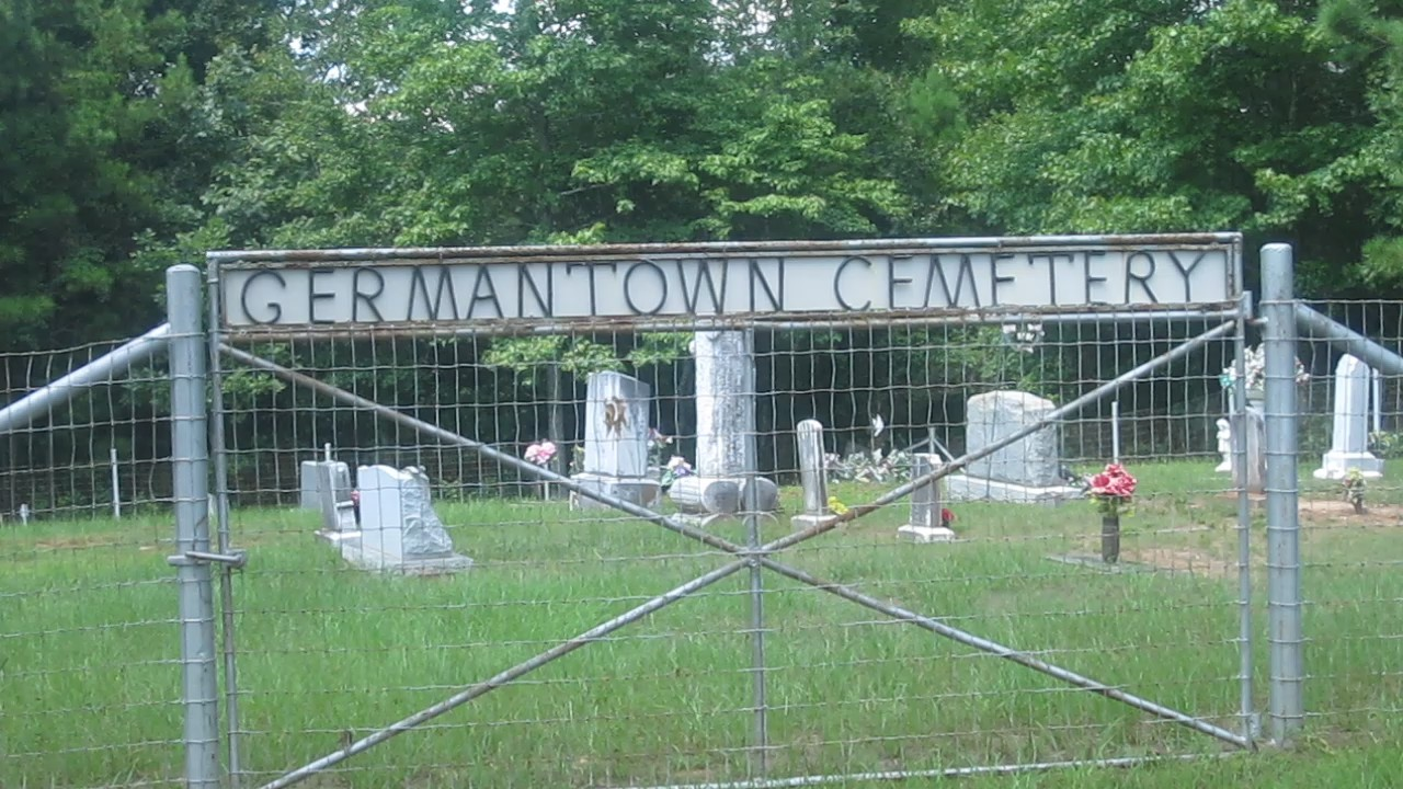 Germantown Colony Cemetery north of Minden, LA